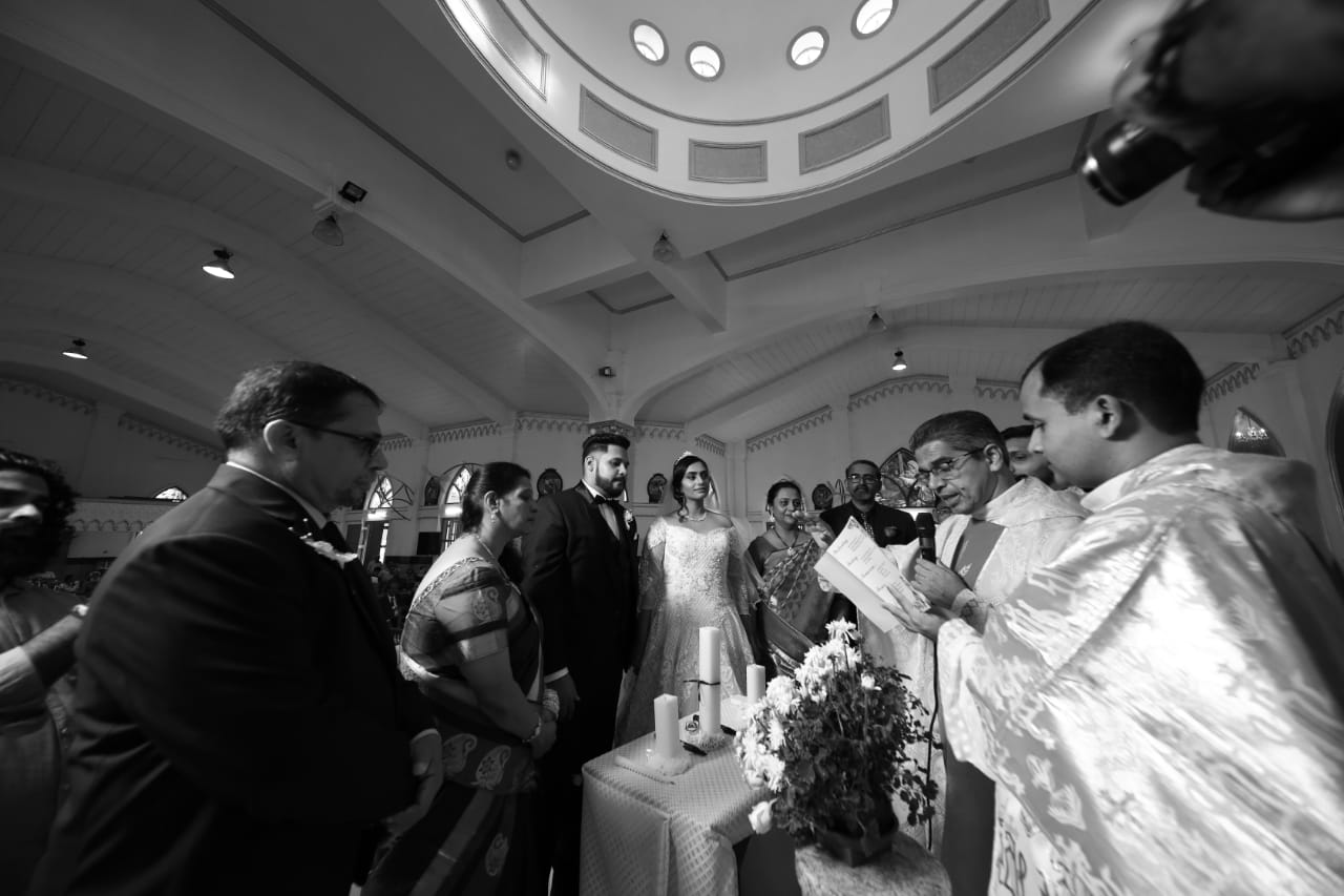 Catholic tradition of blessing the newly wedded couple This photo has been taken in the country: India